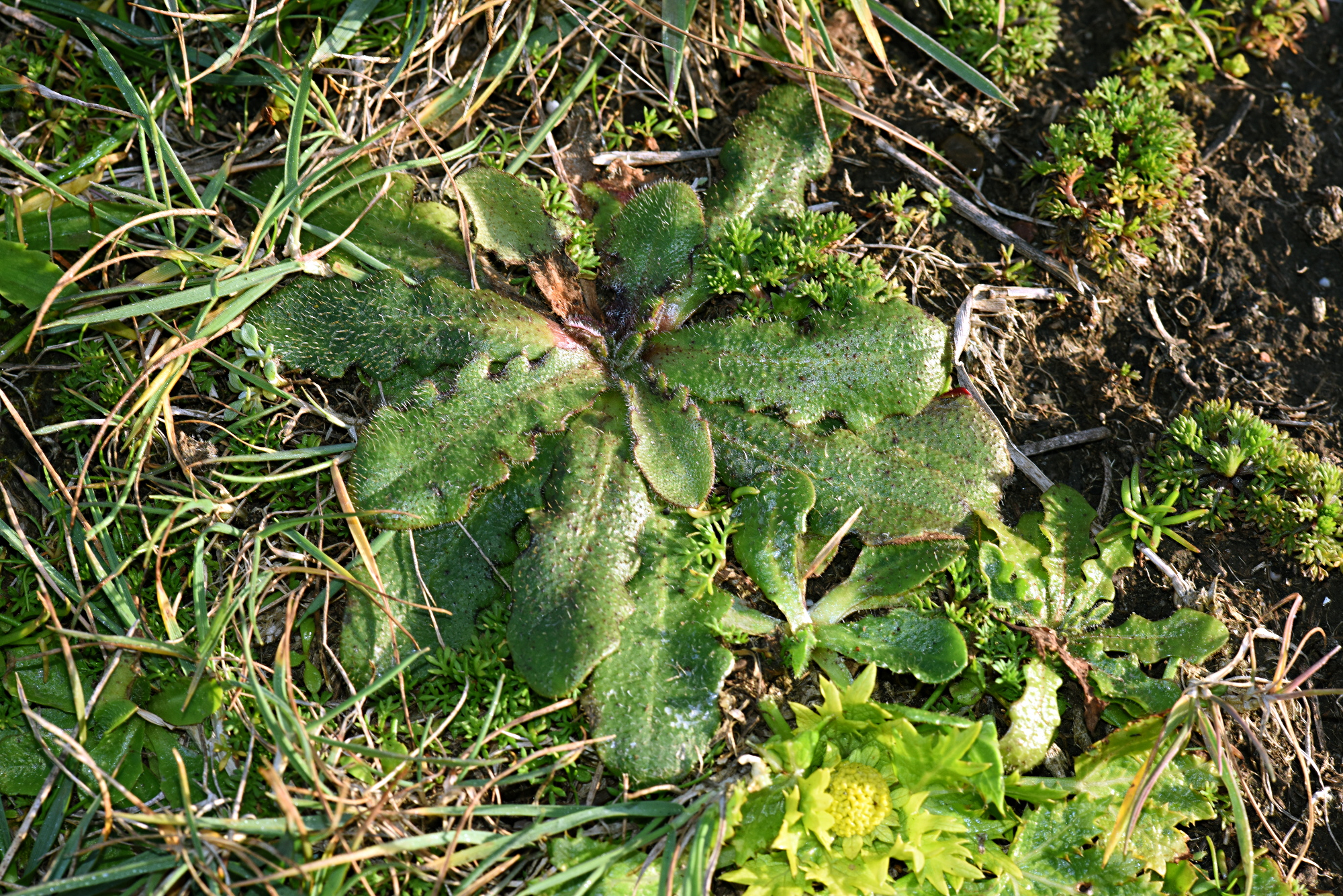 Hypochaeris radicata from Salt Point State Park, California. Found 20 feet from the ocean on Feb. 13.